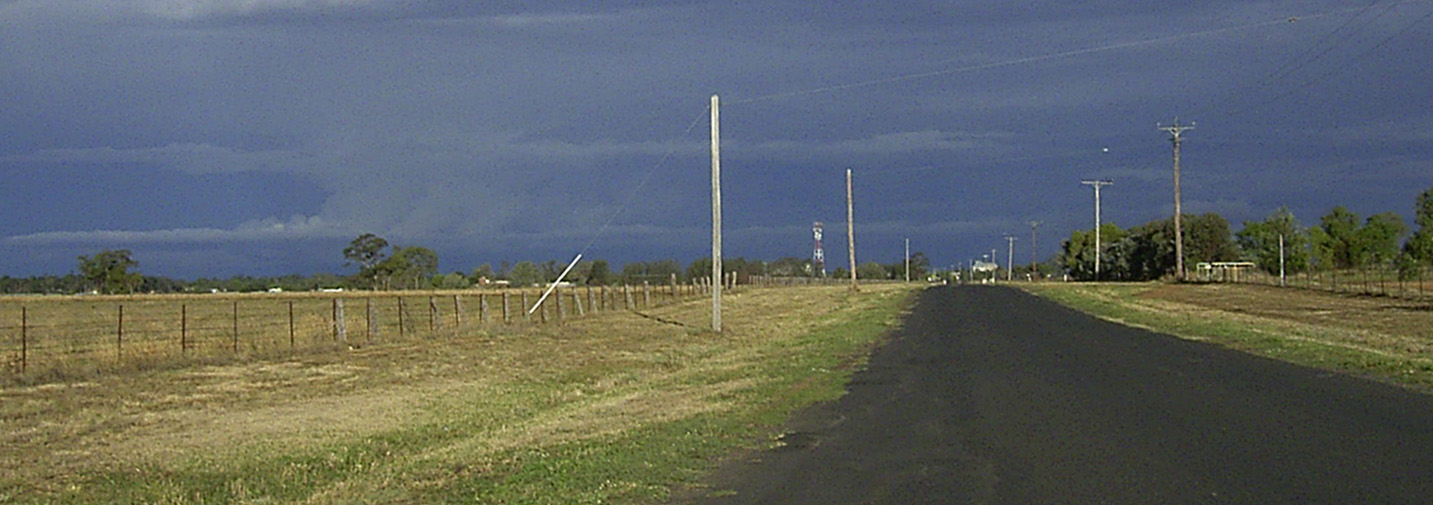 The town of Narromine, viewed from a distance, approaching from Dandaloo Road.